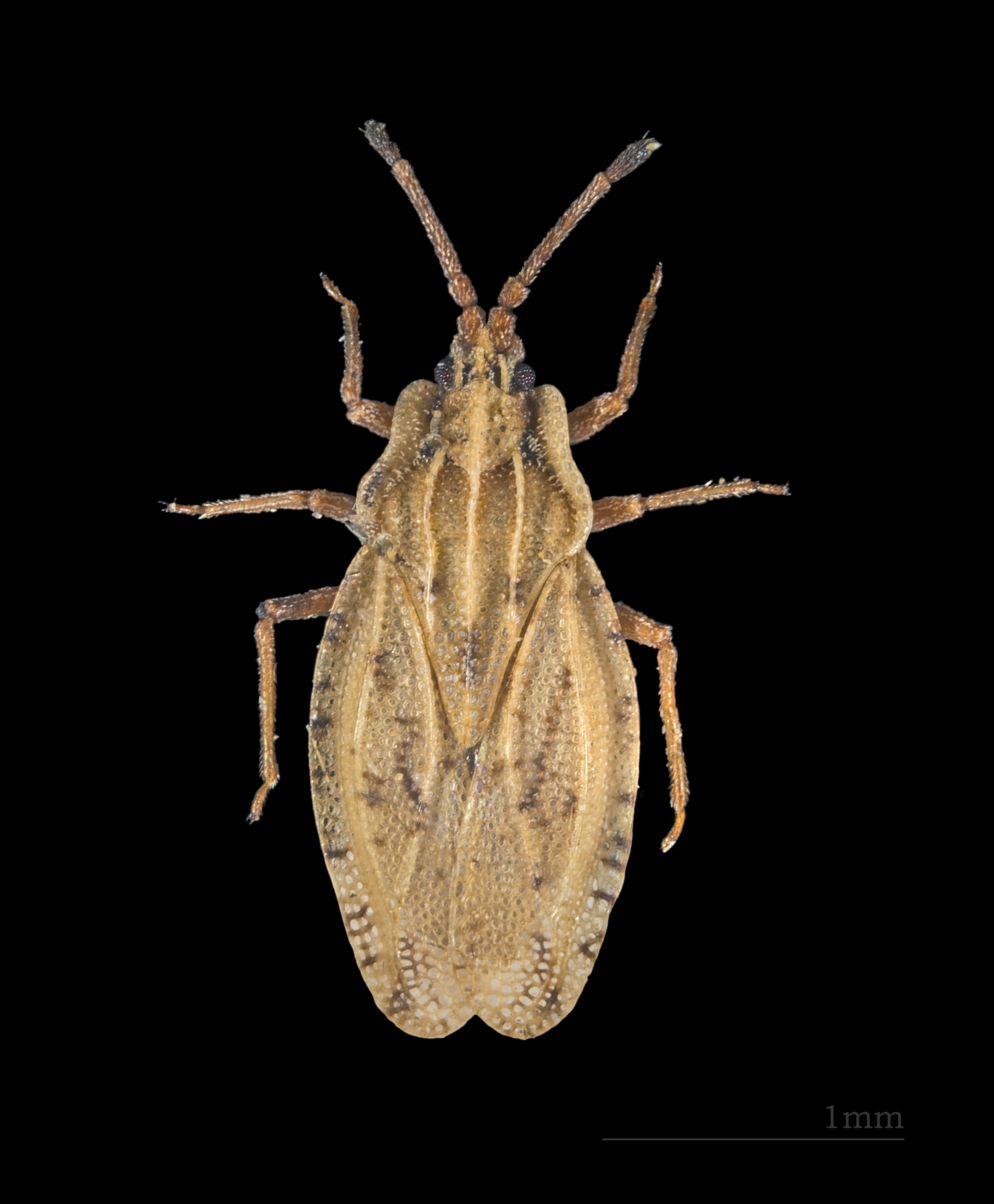 Tingis auriculata